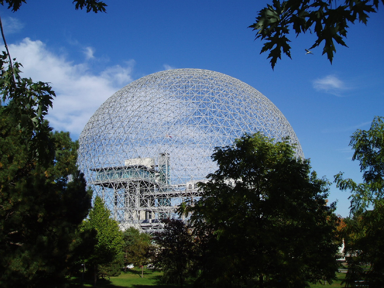 The former Expo 67 United States of America Pavilion designed by Buckminster Fuller, seen here in the fall of 2004. The building now serves as the Biosphere, in Montreal's Parc Jean-Drapeau. The Biosphere is missing the structure's original external clear acrylic skin which was destroyed by a fire in May 1976.